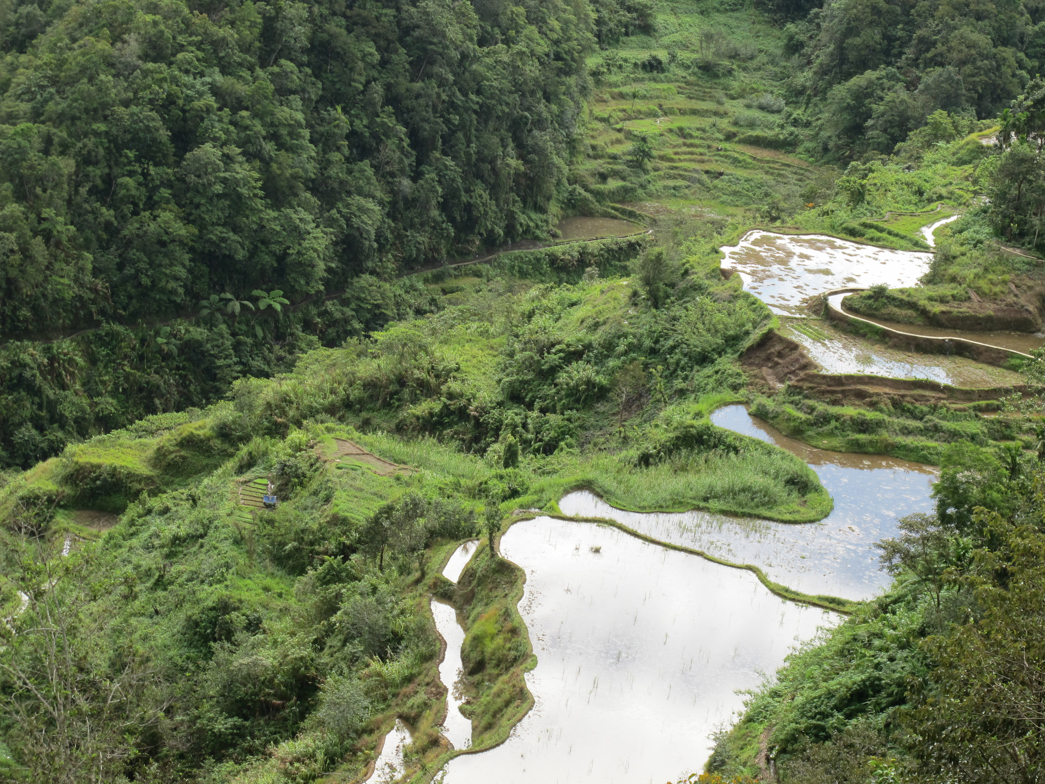 Ifugao terraces, Philippines